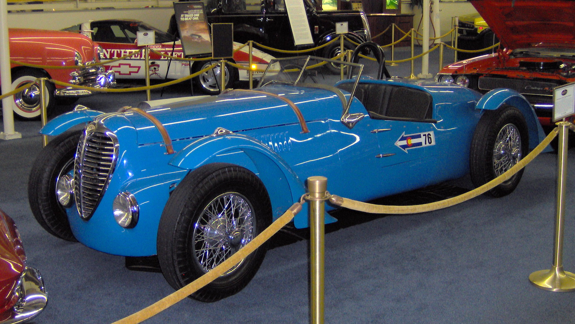 1949 Delahaye 135MS Competition Roadster